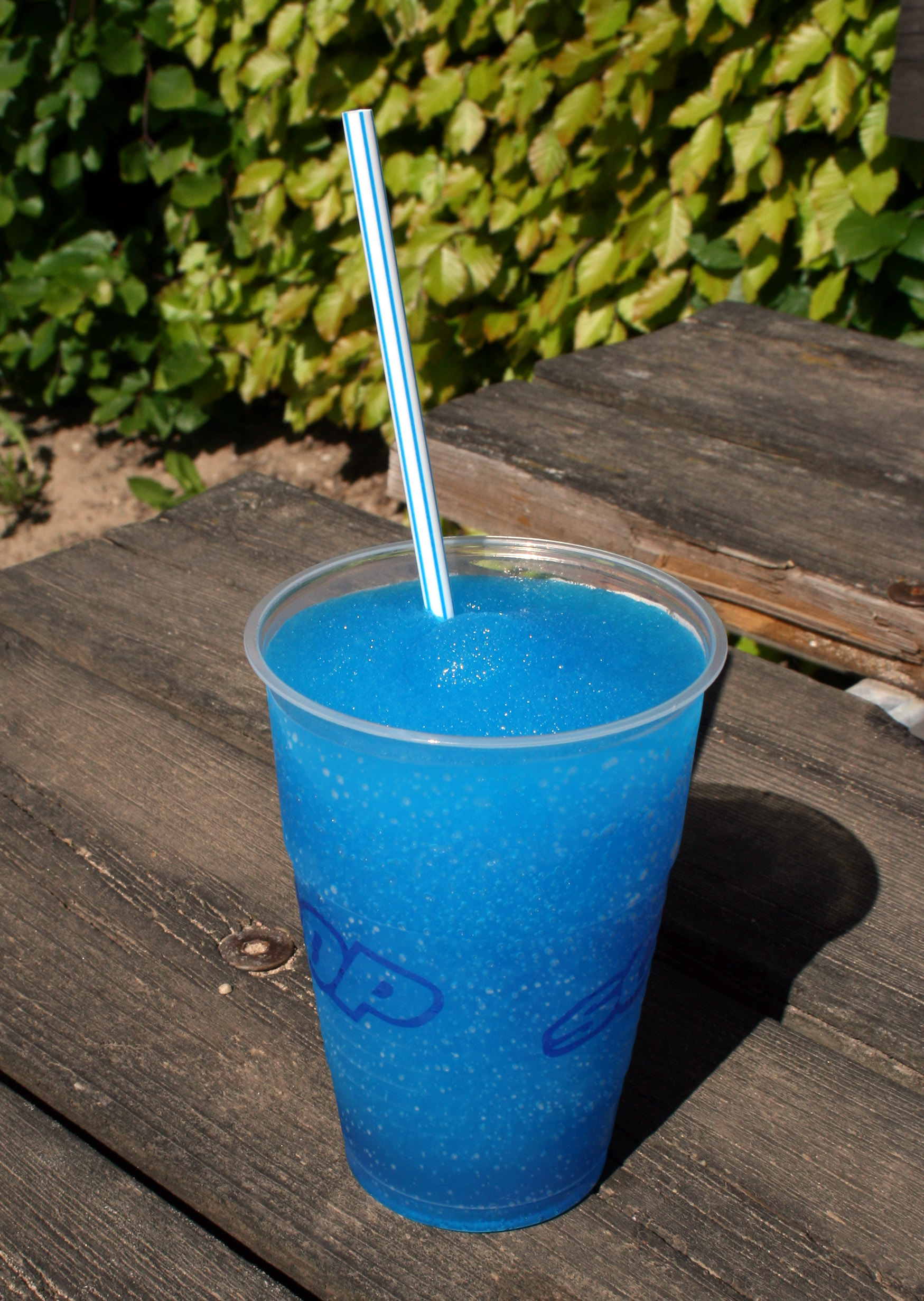 A Slush drink